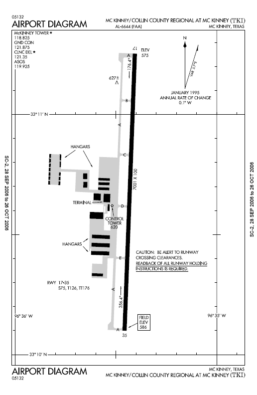 Airport map Collin County Regional Airport category:Collin County Regional Airport category:Federal Aviation Administration category:Maps